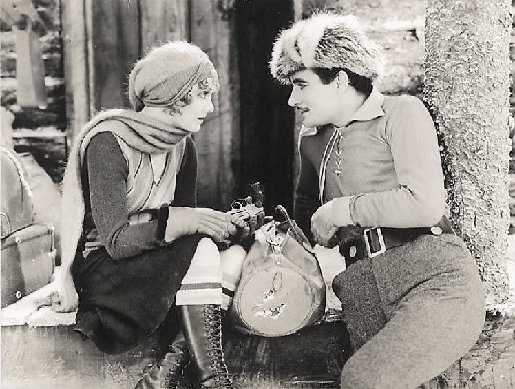 Barbara Leonard e Gilbert Roland in "Men of the North"; foto promozionale